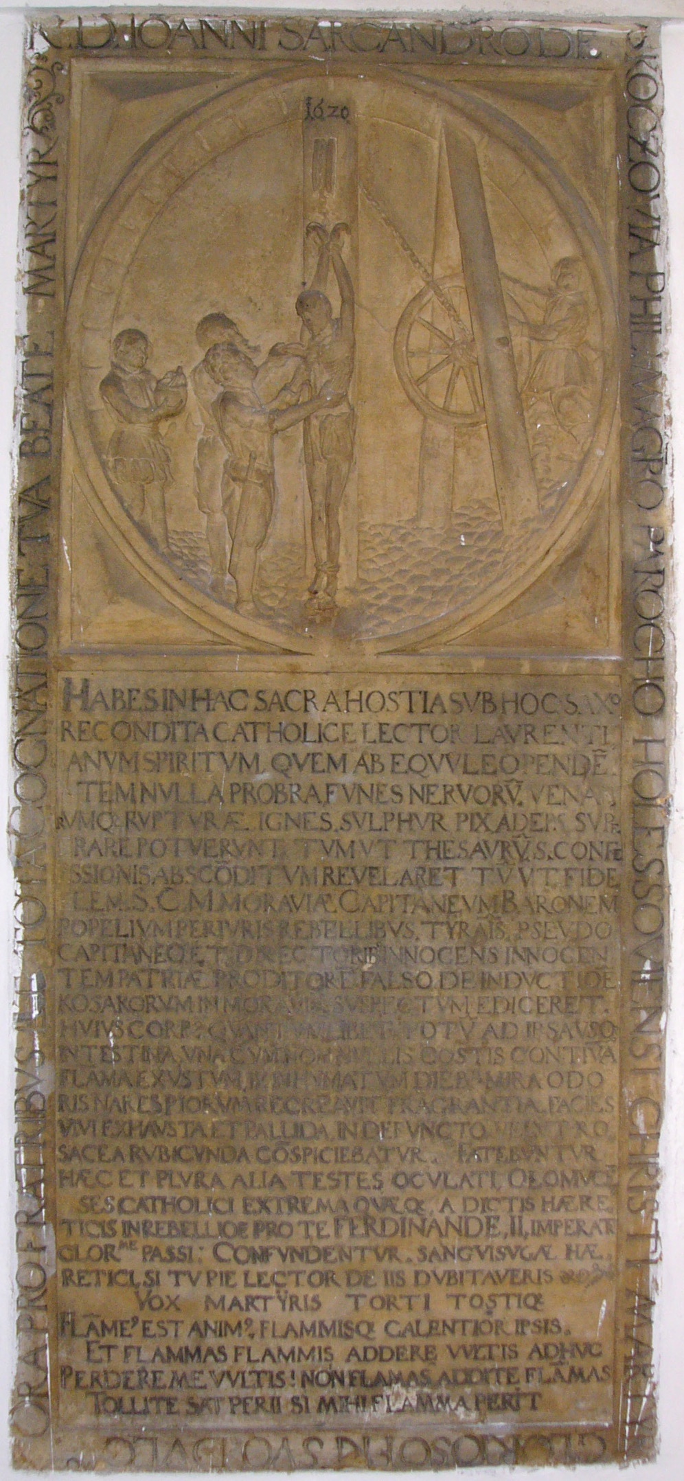 Epitaph of John Sarkander in St. Jan Sarkander chapel (Sarkandrova kaple) in Olomouc (Czech Republic).